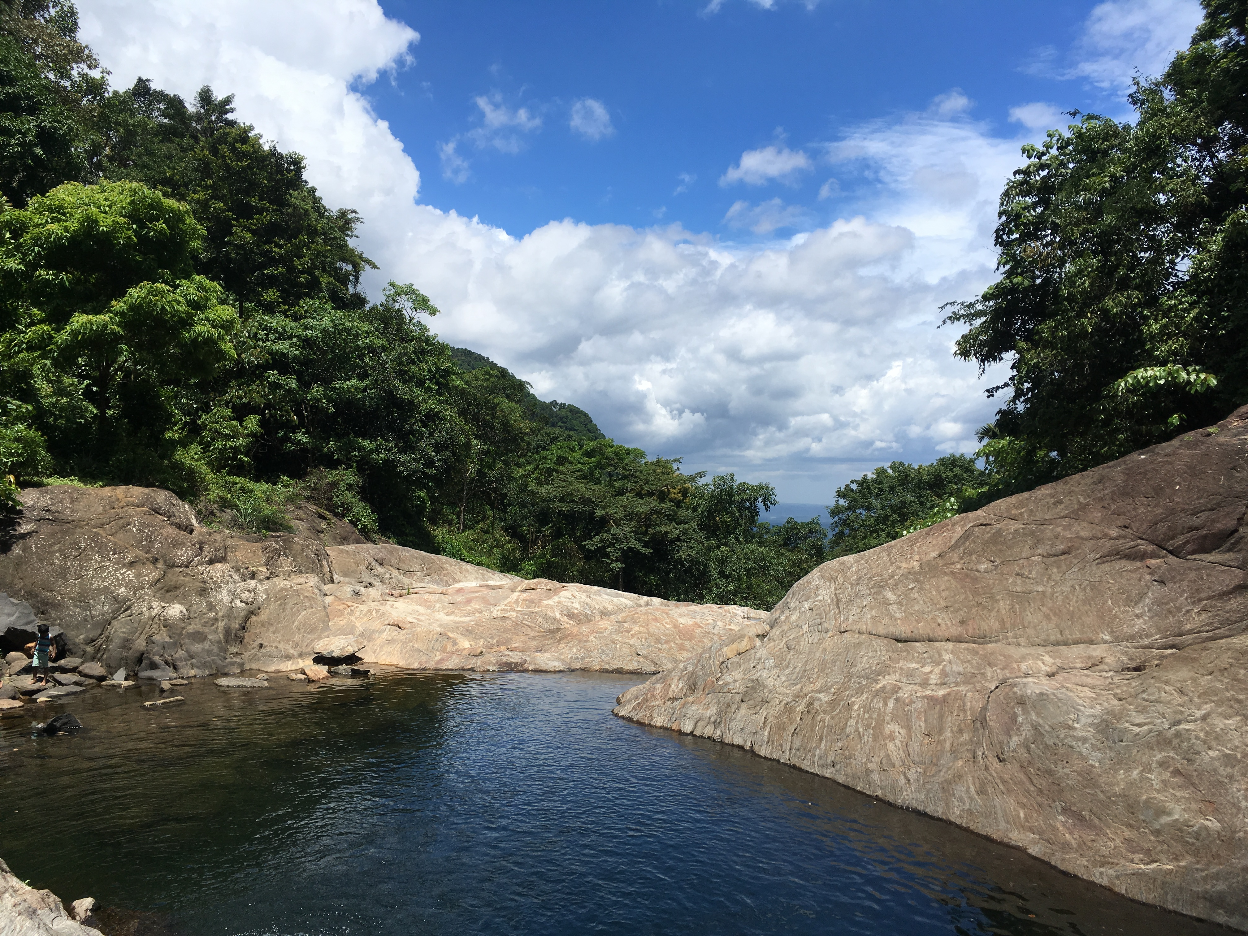 a river at poovaranthode village, kerala